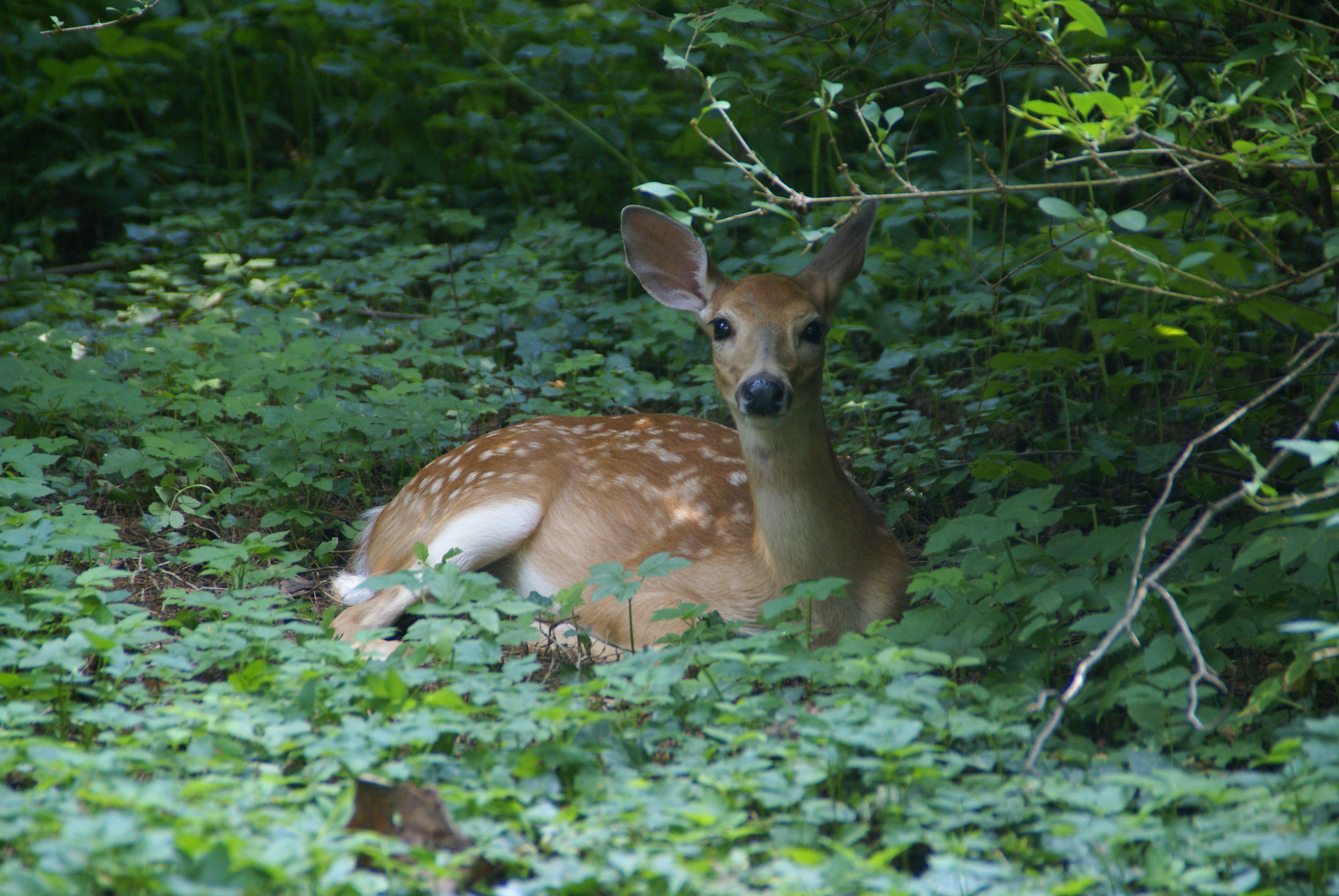 A Northern white-tailed deer (Odocoileus virginianus) fawn in Berwyn, Pennsylvania.